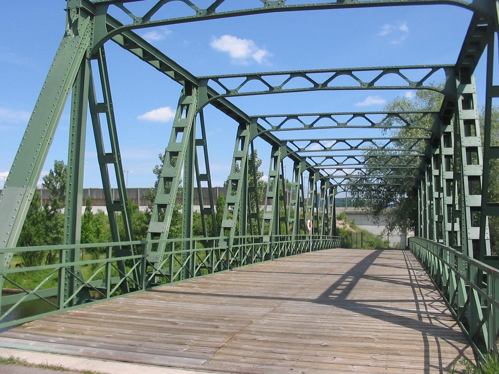 The Britzer Hafensteg is a footbridge over the Neuköllner Schiffahrtskanal (canal) in Berlin-Britz, Borough Neukölln.